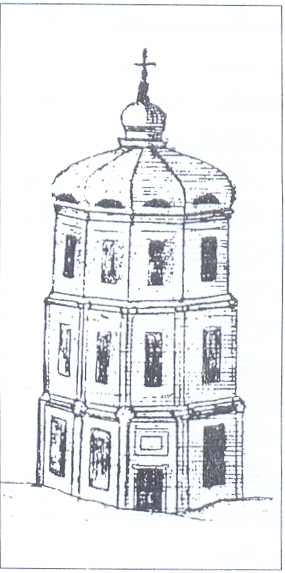 Reconstruction of Muscovy Chapel by Zygmunt Librowicz.